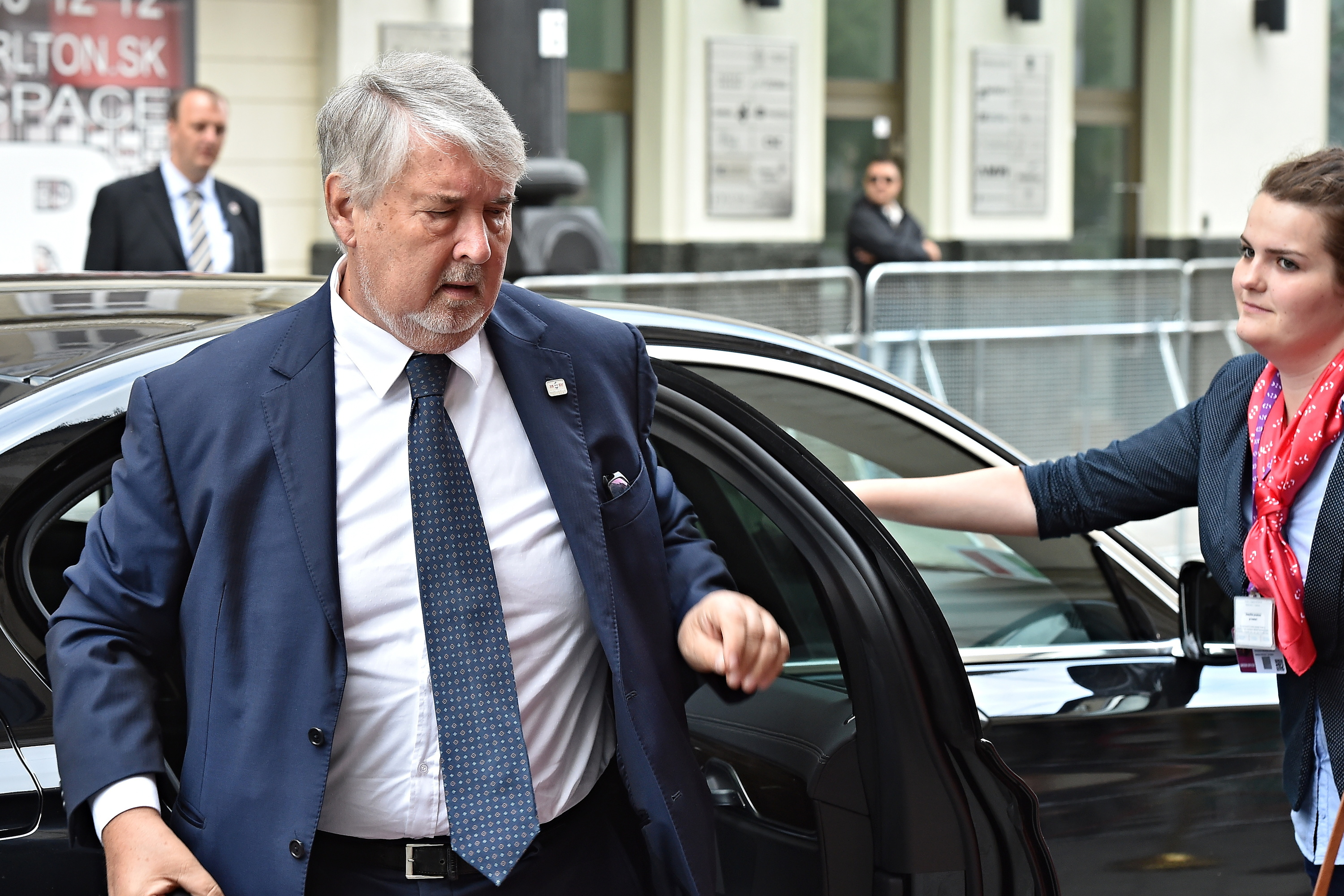 Italy, Mr. Giuliano Poletti, Minister of Labour and Social Policies Informal Meeting of Ministers for Employment and Social Policy Photo: Rastislav Polak